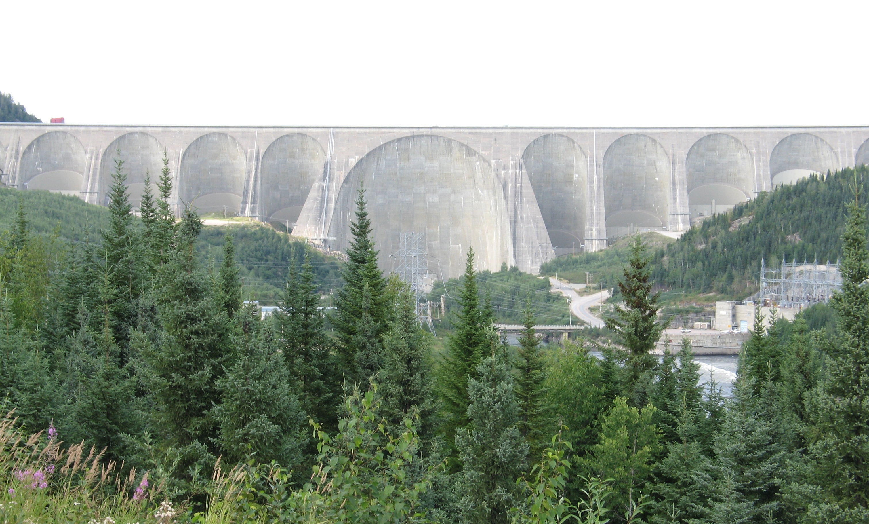 The Daniel-Johnson Dam, located 214 km north of Baie-Comeau, Quebec. The dam constructed between 1962 and 1968 is the cornerstone of Hydro-Quebec's Manic-cinq hydroelectric complex. The two electric generating stations located there have an installed capacity of 2592 MW.